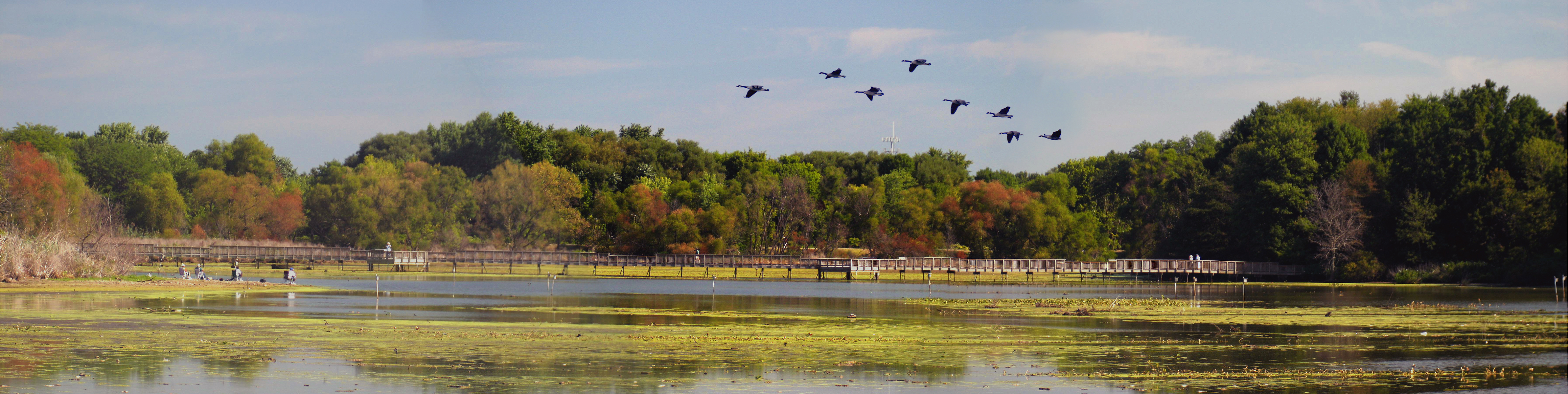 The boardwalk and impoundment at John Heinz National Wildlife Refuge at Tinicum, Pennsylvania, USA.